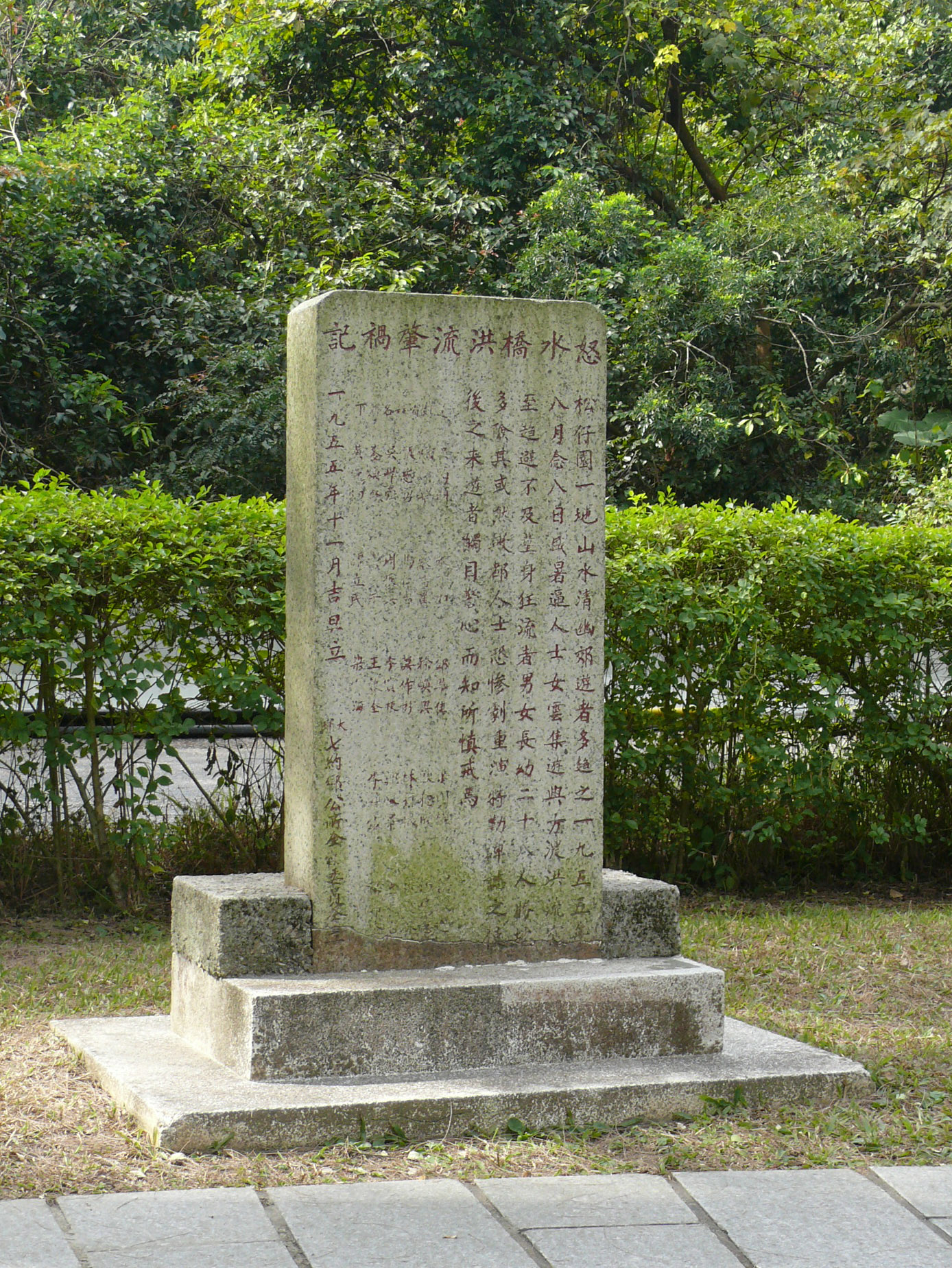 Stone plaque near Tai Po (Hong Kong)recording a tragic event in August 1955.